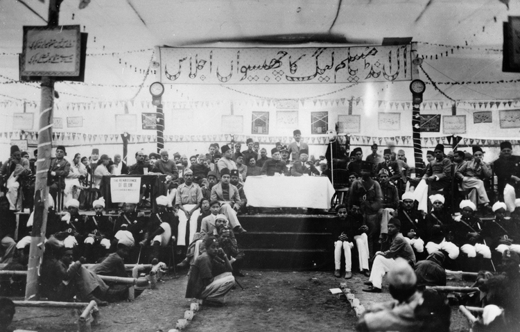 All India Muslim League, 26th Session at Patna, December 1938. From BL Photo 429/(5), held and digitised by the British Library.